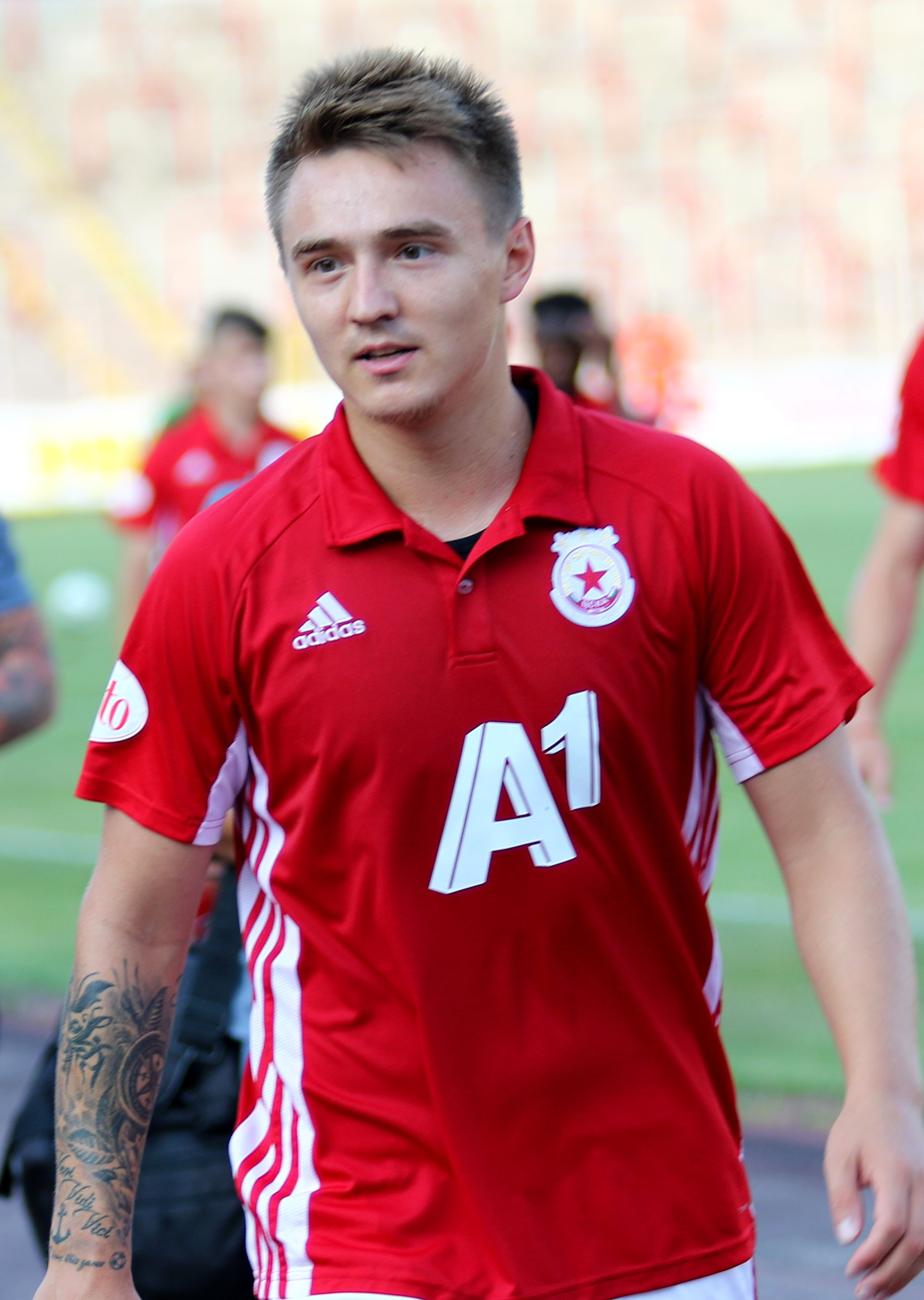 Denis Alekseyevich Davydov (Russian: Денис Алексеевич Давыдов; born 22 March 1995) is a Russian professional footballer who plays as a winger or second striker for Bulgarian First League club CSKA Sofia.